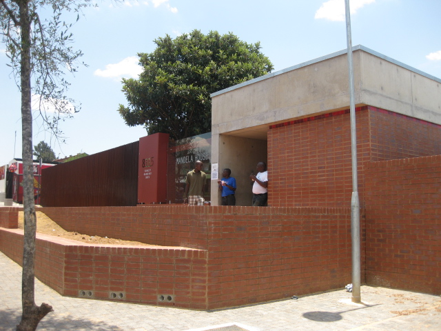 Nelson Mandela's old house museum